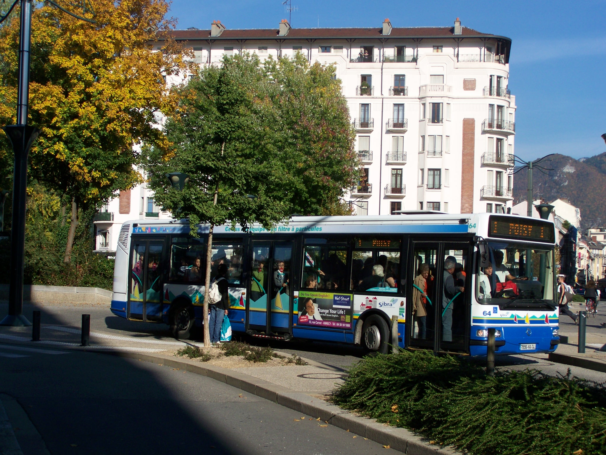 Bus of line n#1 of SIBRA bus transportation company of Annecy in Haute-Savoie, France. Bus seen here in the city center.